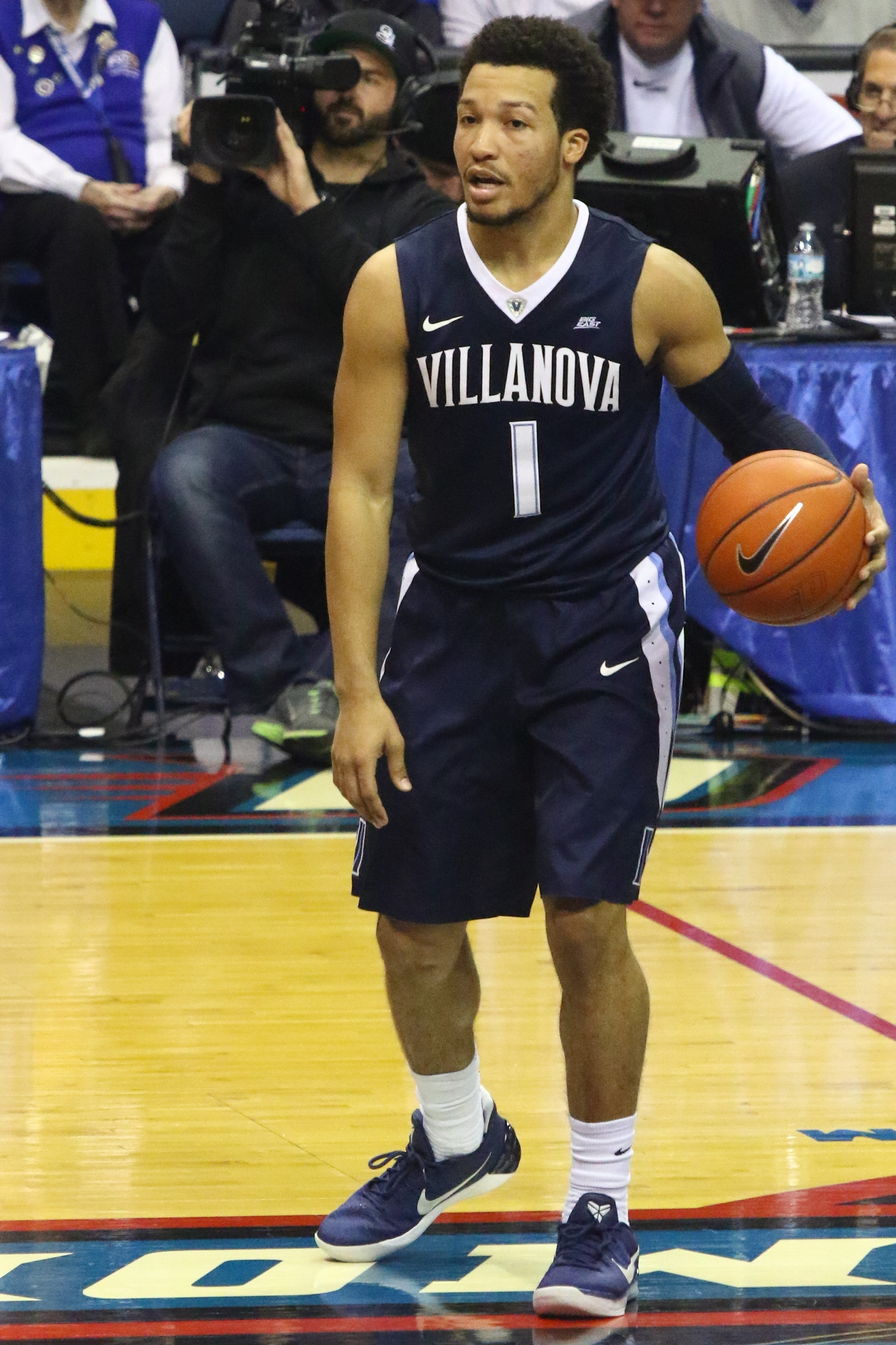 Jalen Brunson for the w:2016–17 Villanova Wildcats men's basketball team at Allstate Arena